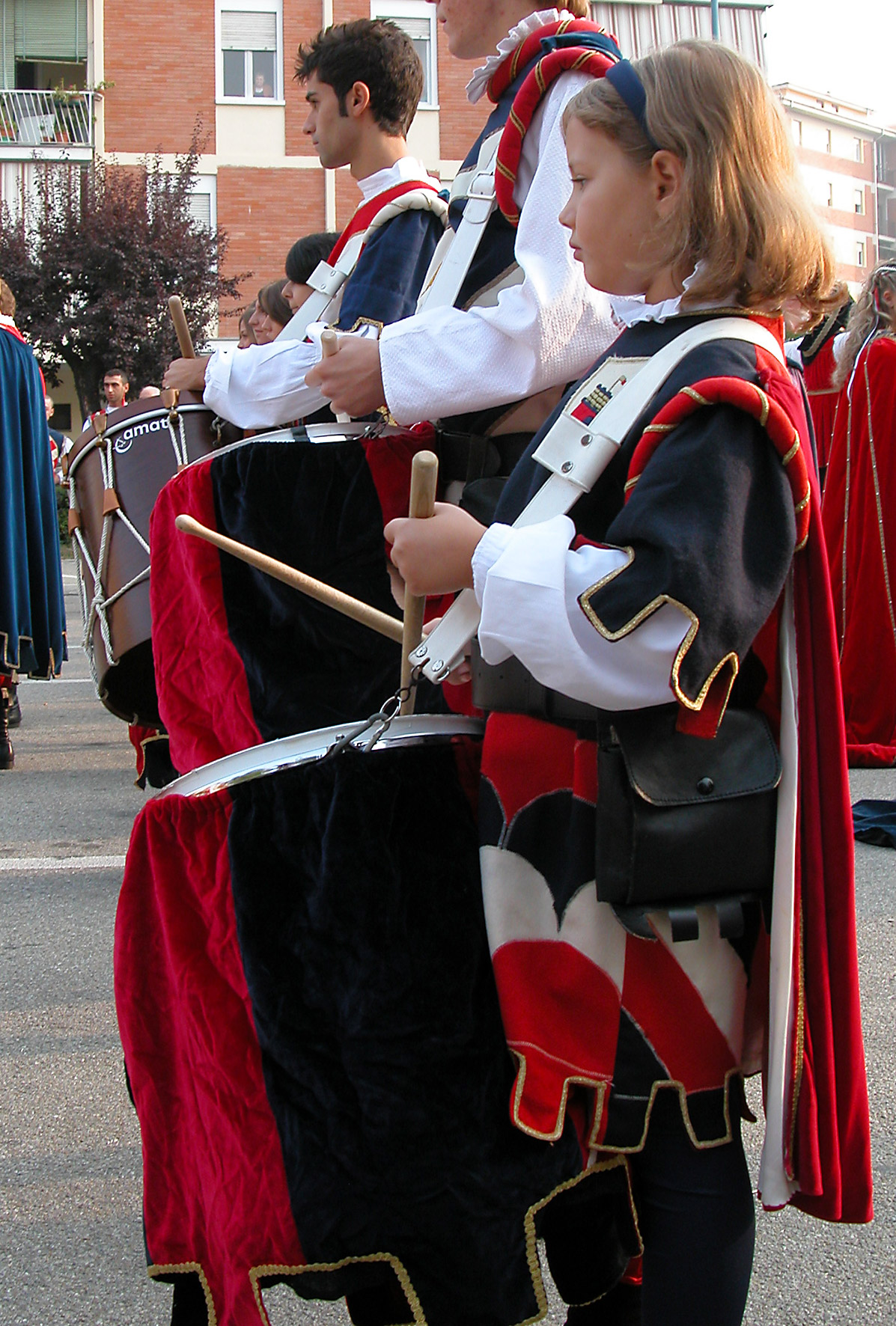 Some musicians of Palio of Asti